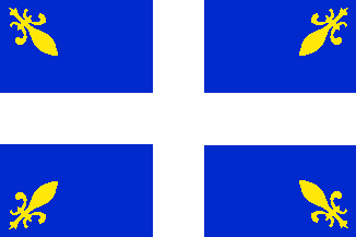 Quebec flag proposal of 1902 - the "Carillon Flag"